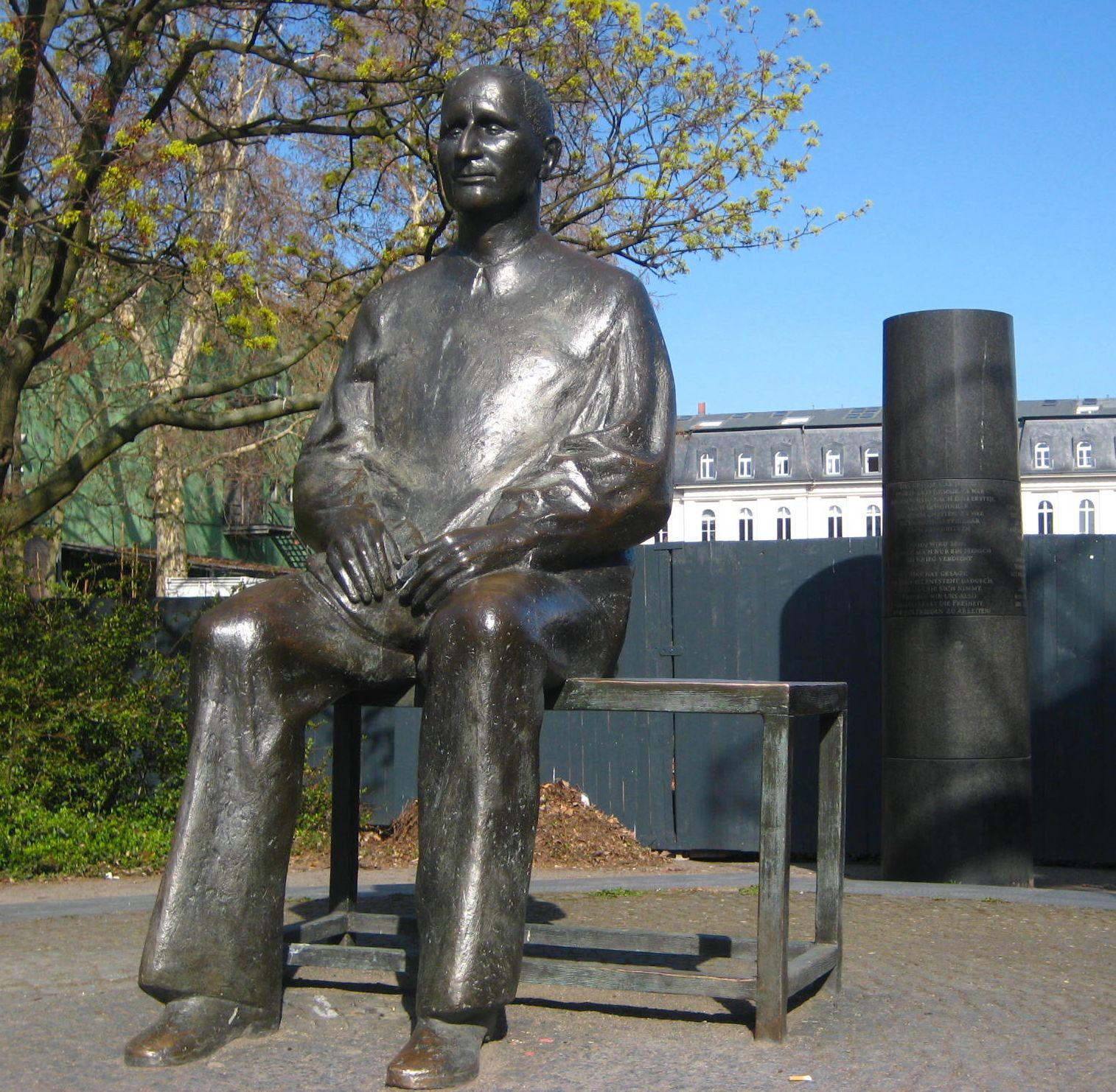 Bertolt Brecht Memorial on Bertolt-Brecht-Platz in Berlin-Mitte. It was created in 1988 by sculptor Fritz Cremer.